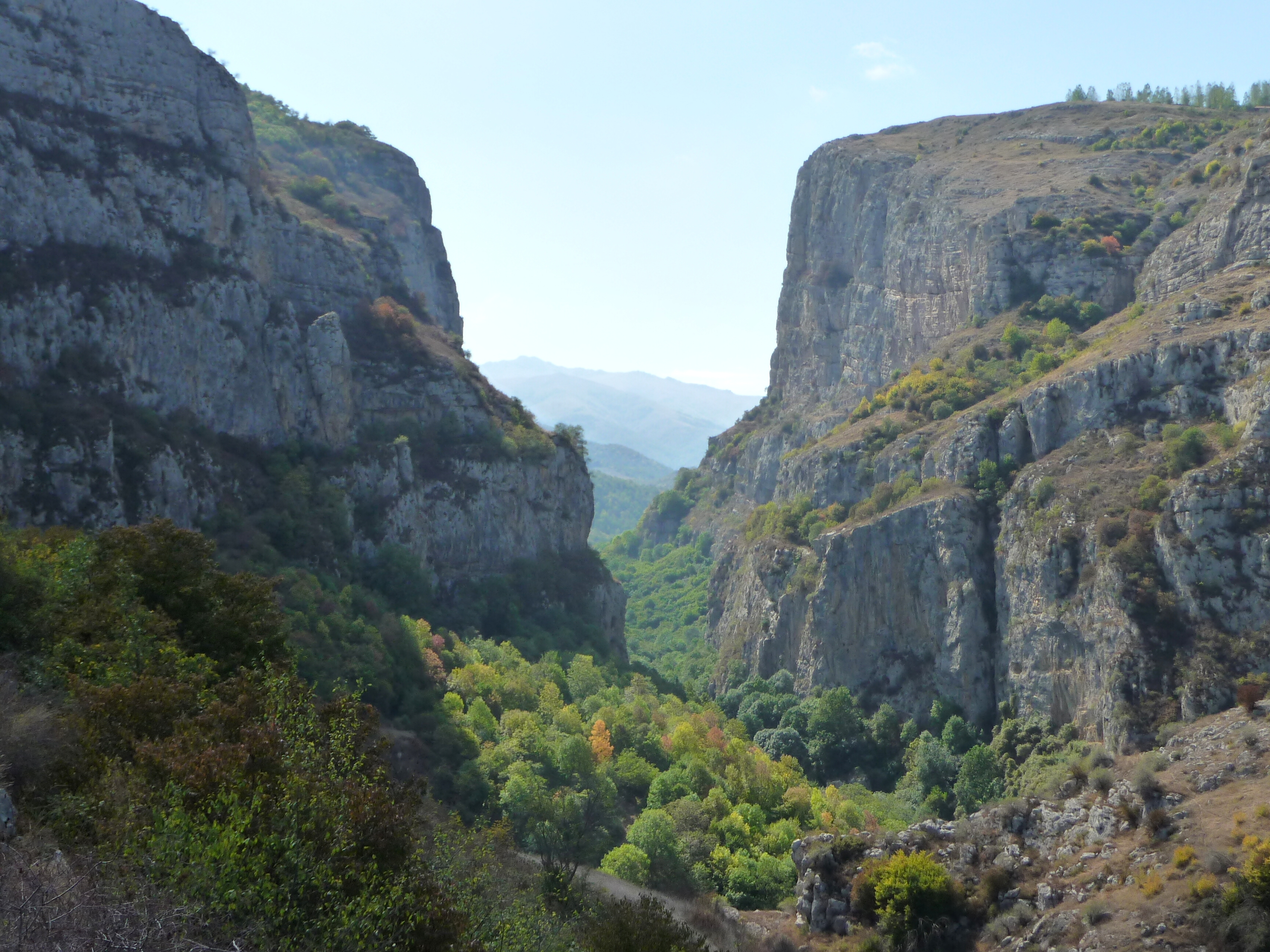 The Karkar River Canyon near Karintak/Dashalty, Nagorno-Karabakh.